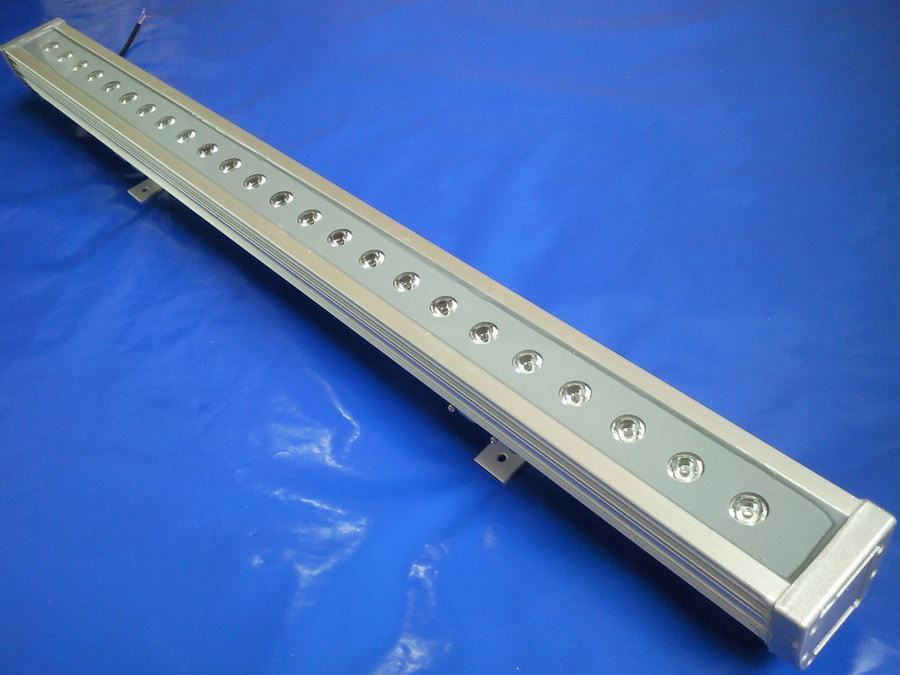 led wallwasher 24w